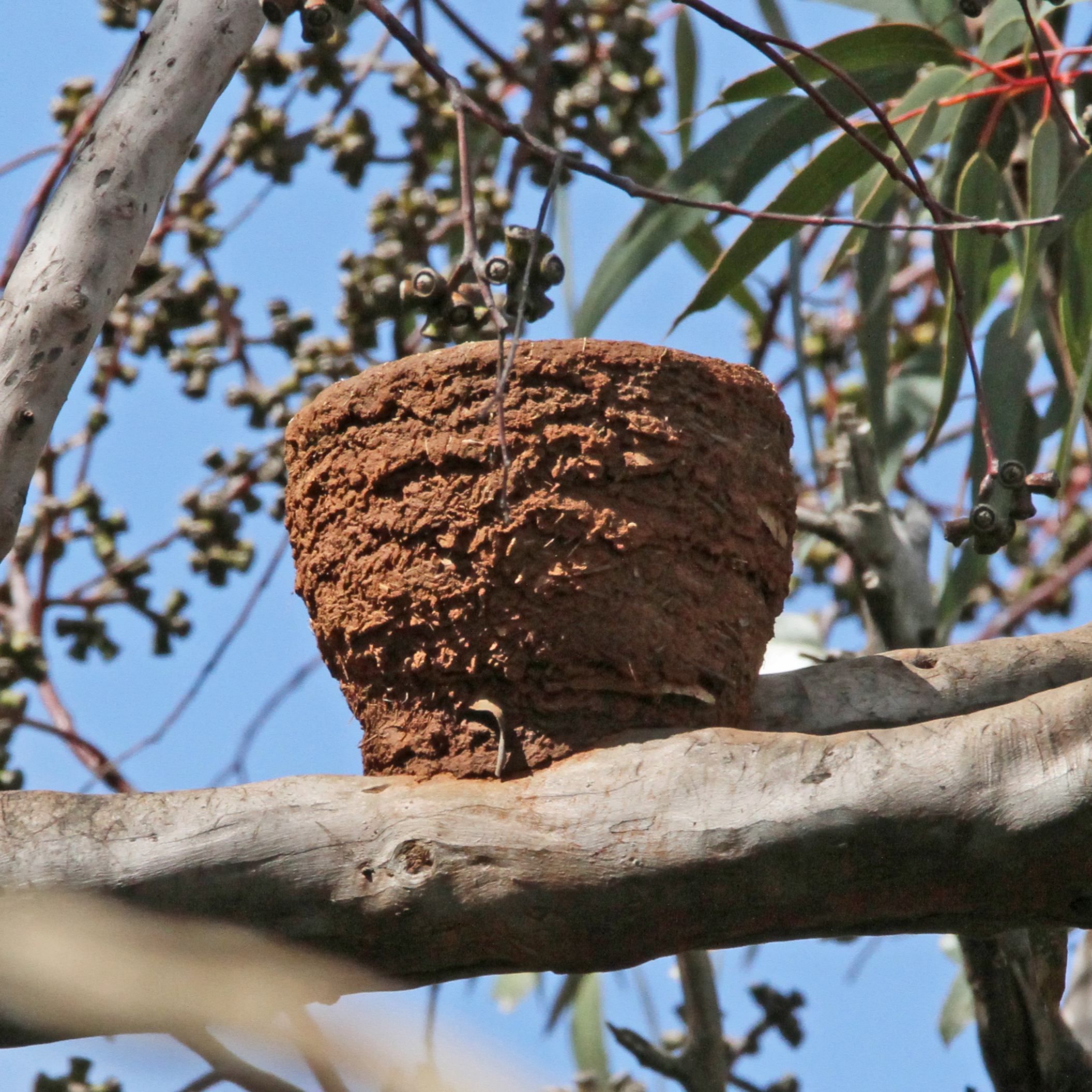 photo of the nest of a White-winged Chough